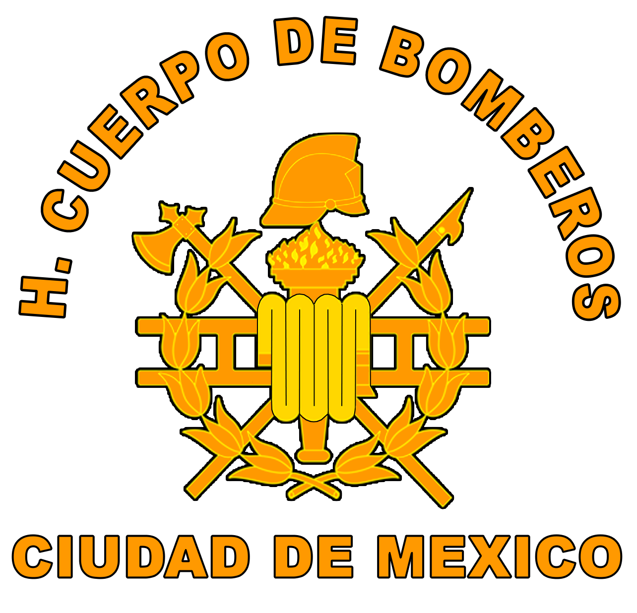 Seal of the Heroic Mexico City Fire Department (Mexico City Fire Corp).